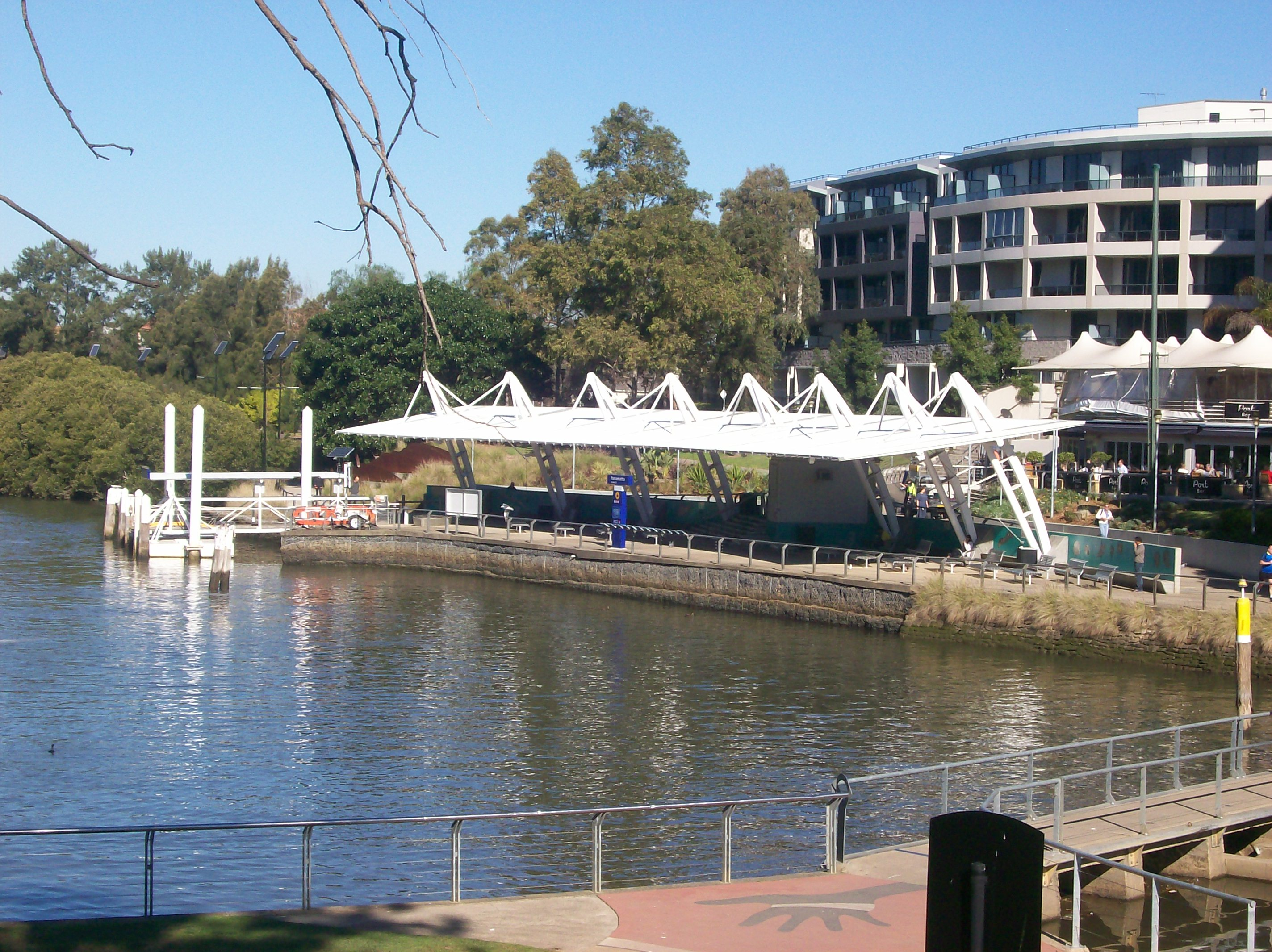 Parramatta ferry wharf exterior